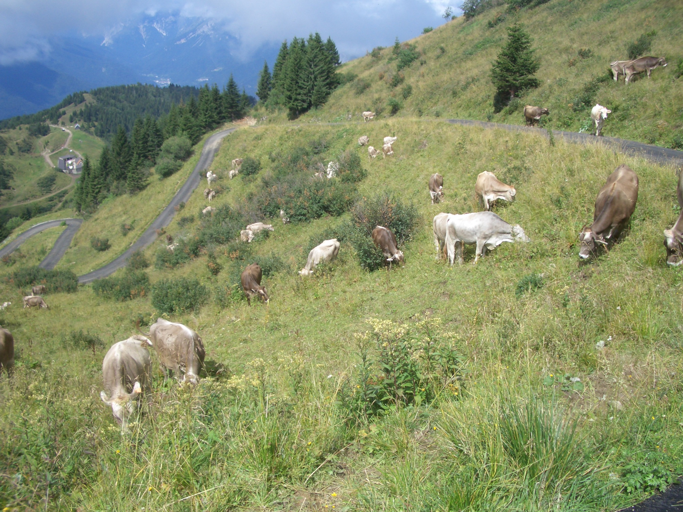 To the Zoncolan from Ovaro